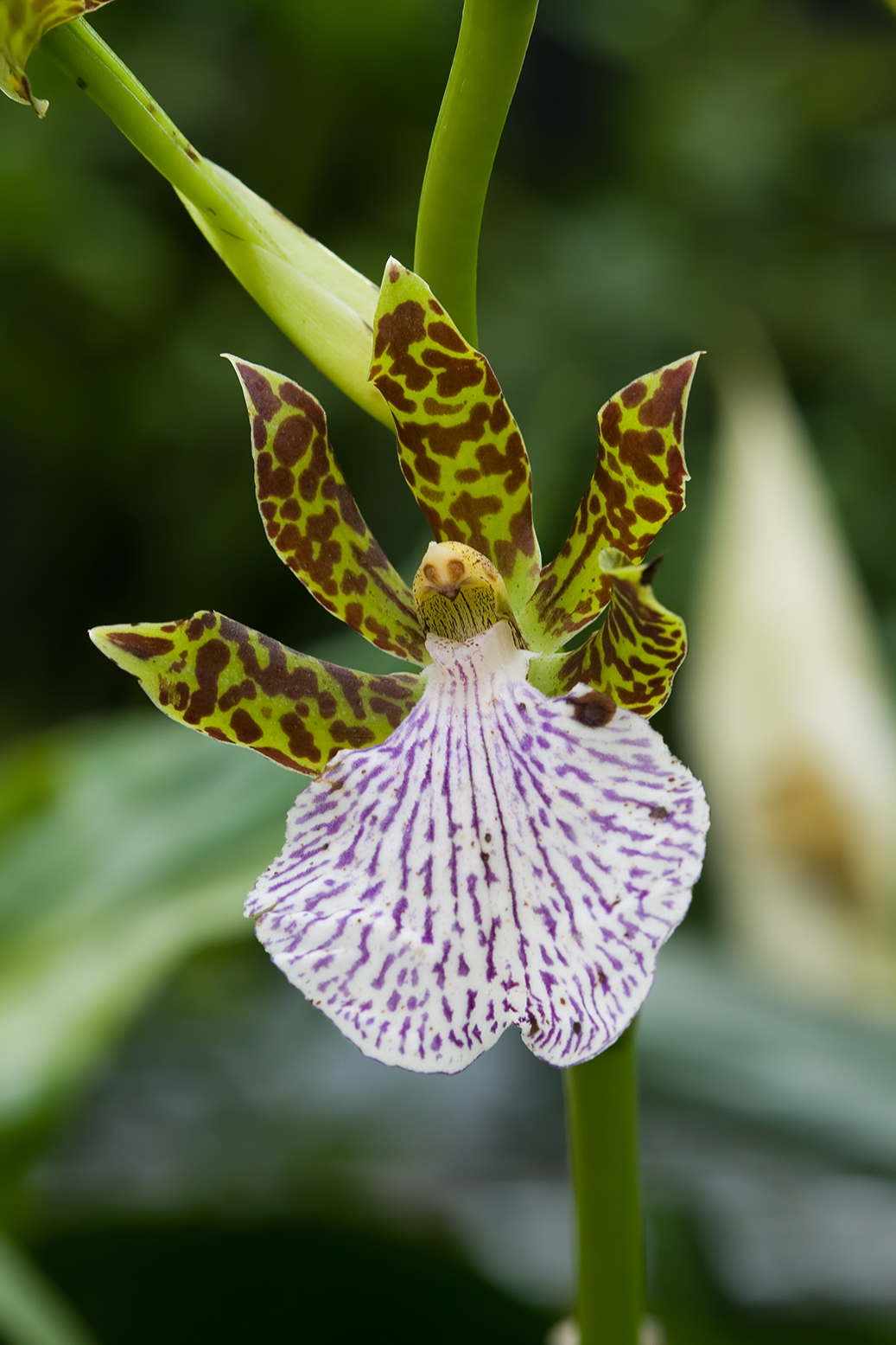 Zygopetalum crinitum, Royal Tasmanian Botanical Gardens, Tasmania, Australia Camera data Camera Canon EOS 400D Lens Tamron EF 180mm f3.5 1:1 Macro Flash Shoot through umbrella left Focal length 180 mm Aperture f/8 Exposure time 1 s Sensivity ISO 100